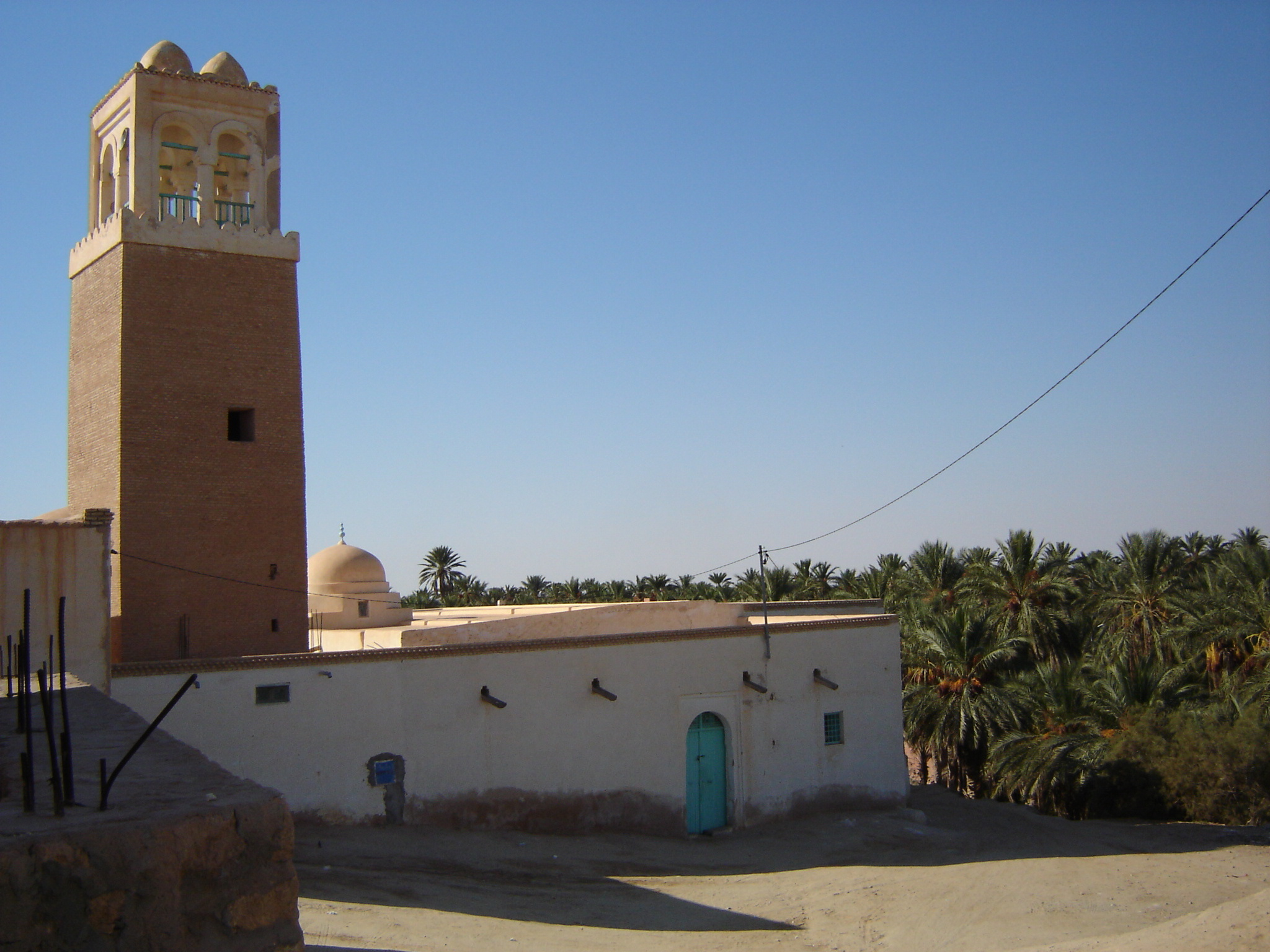 Mosque in Nefta, Tunisia Source: Self-made, October 2004 Author: BishkekRocks